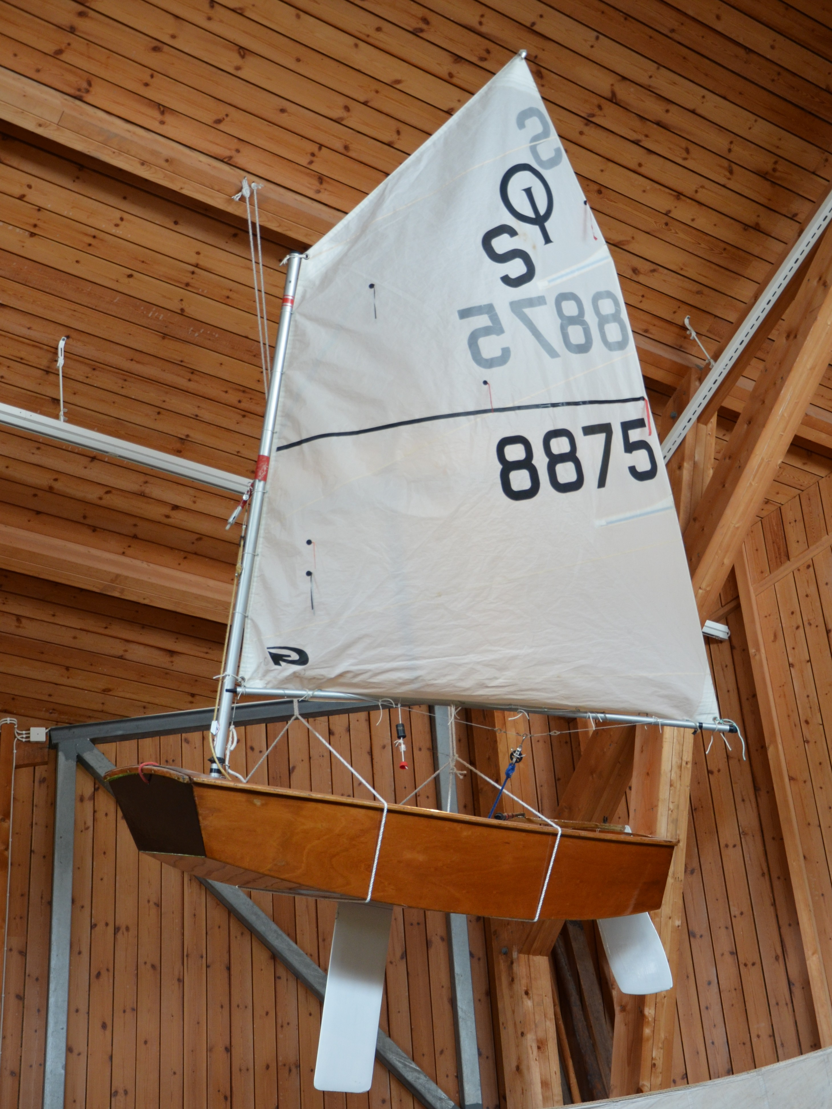 Optimistjolle, Bohusläns museum i Uddevalla